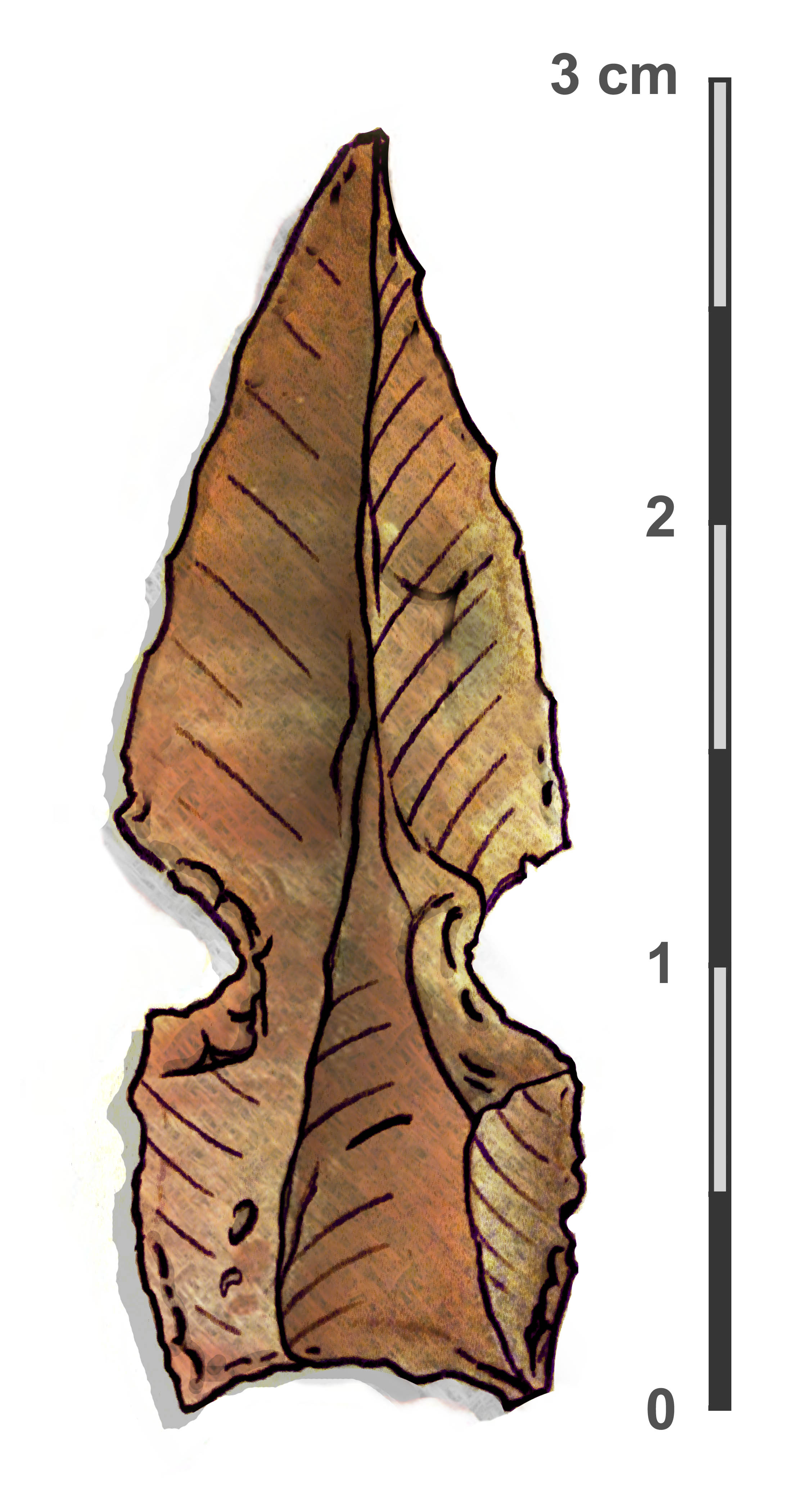 Khiam Point from the assemblage of Nahal Hemar, Israel. Pre-Pottery Neolithic B; Red flint; Lenght: 29 mm.